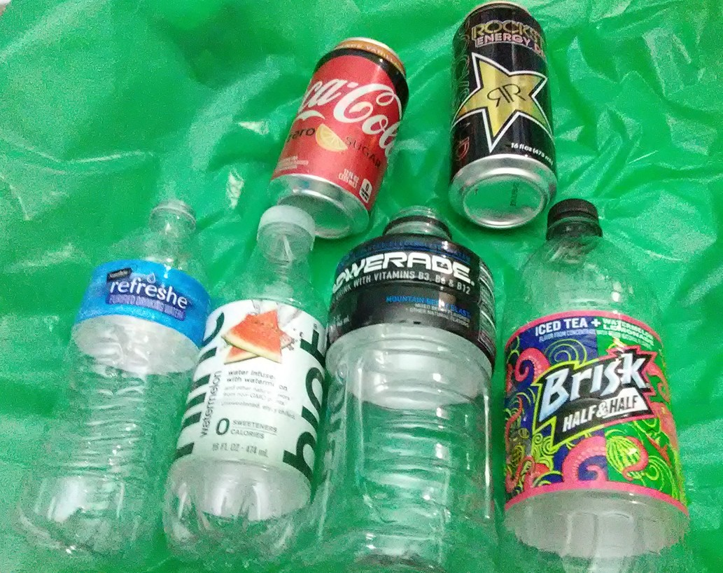 Some examples of containers subject to Oregon bottle deposit. soda, water, isotonic beverage and juice. Although not pictured, other types of beverages such as beer are subject to deposit as well.